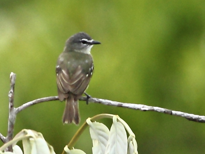 White-lored tyrannulet at Manaus - AM - Brazil